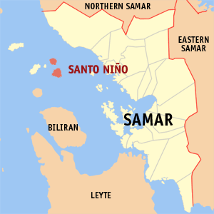 Map of Samar showing the location of Santo Niño